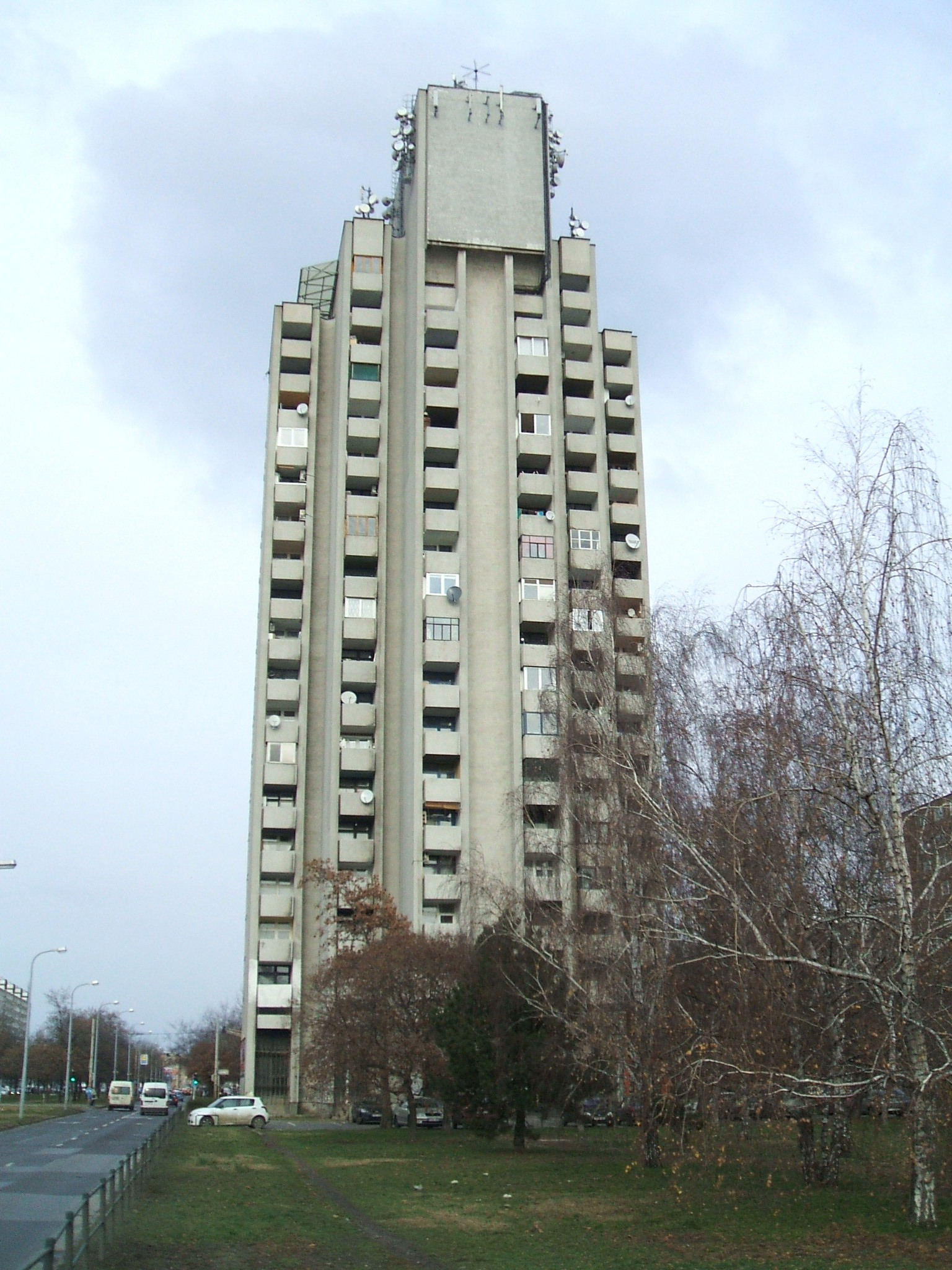 Újpalota tower (central of Újpalota housing estate, pop.: c.40,000), Budapest, Hungary